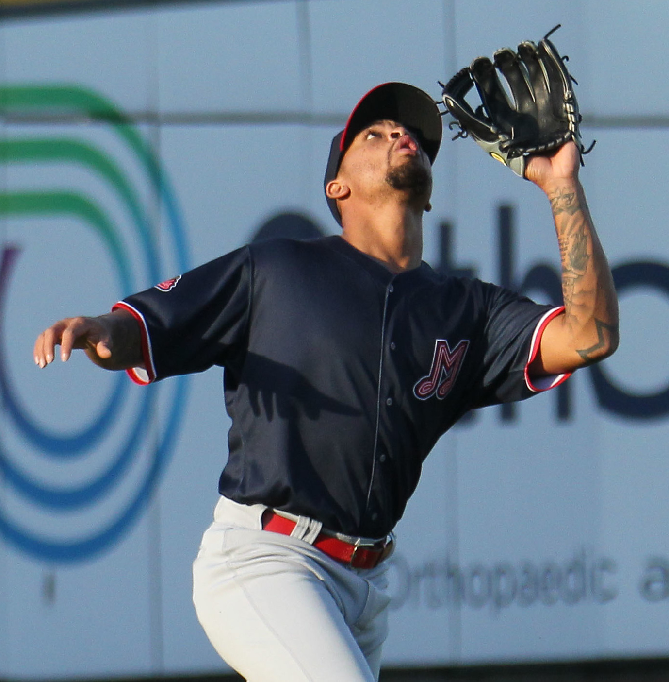 Edmundo Sosa of the Memphis Redbirds attempts to catch a popup during a 2019 game at Werner Park in Nebraska